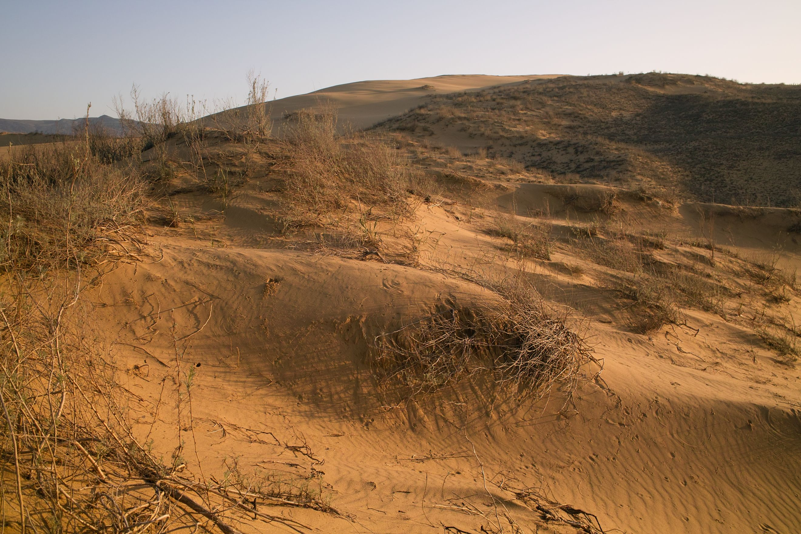 Sary kum, highest dunes in Europe, near Makhachkala (Dagestan, Russian Federation)